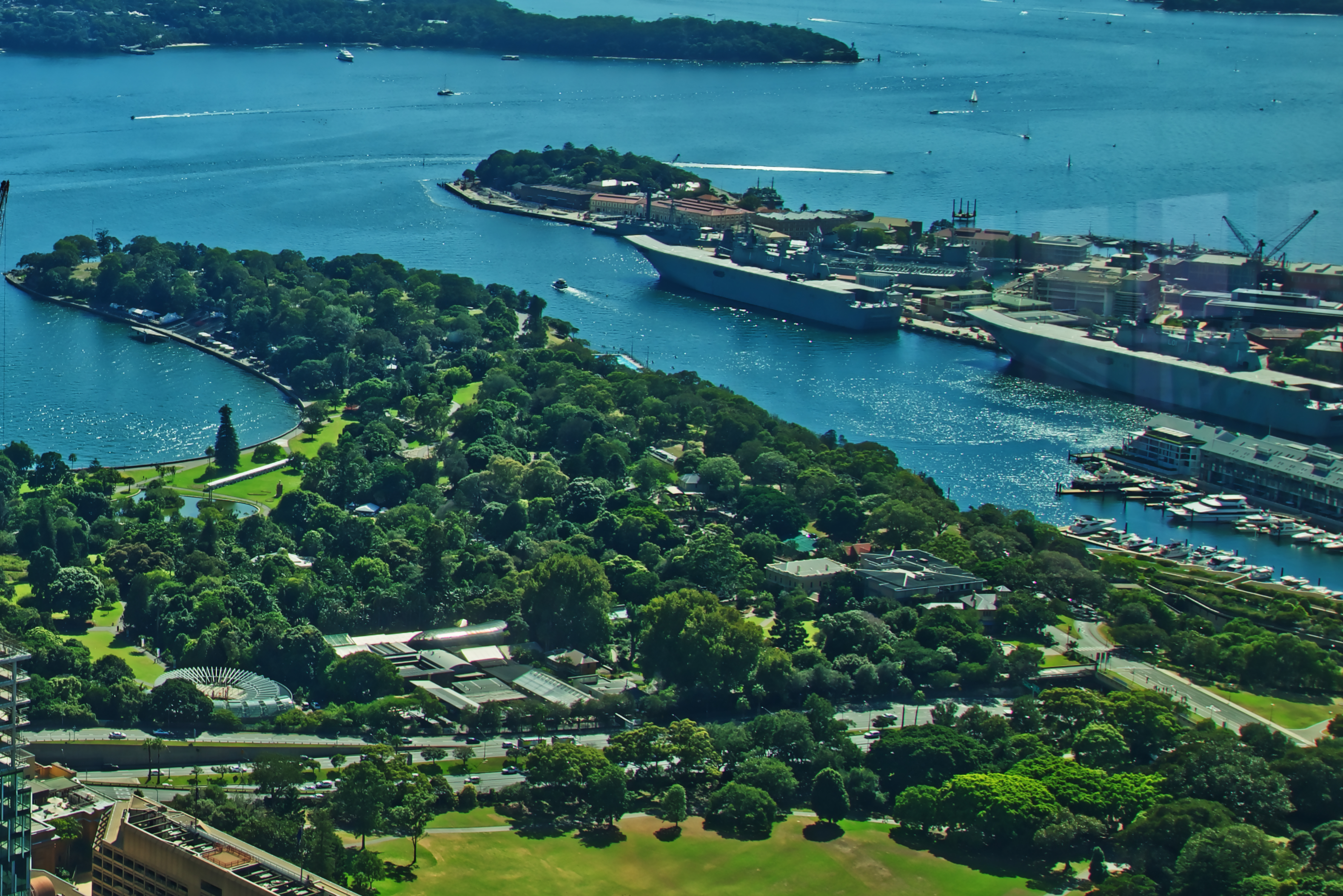 A view of Royal Botanic Garden taken from Sydney Tower, February 2019